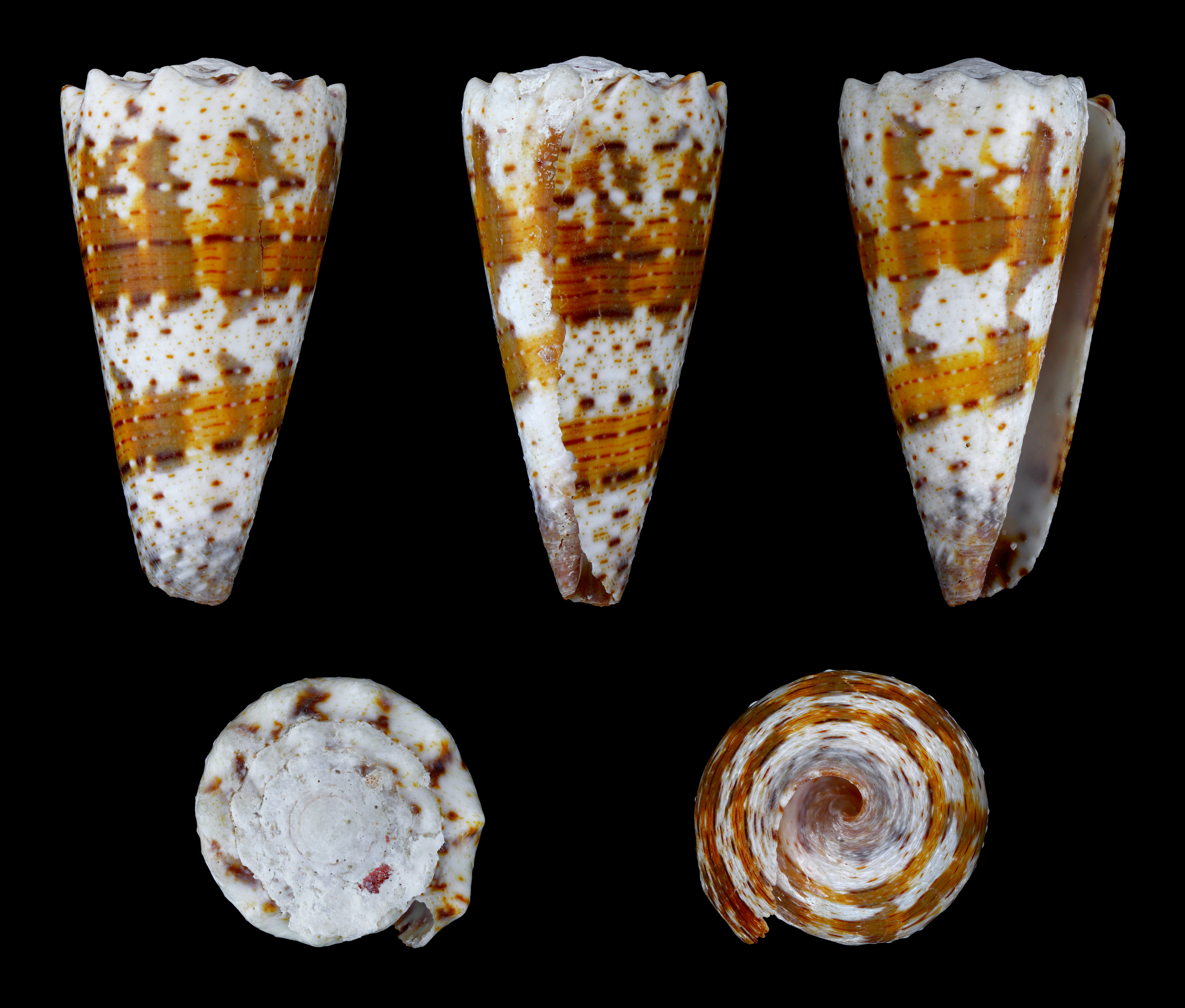 Imperial Cone; Length 5.6 cm; Originating from Bohol, Philippines; Shell of own collection, therefore not geocoded. Dorsal, lateral (right side), ventral, back, and front view.